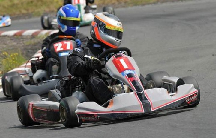 Dave Eadon - Senior TKM Extreme Double British Champion 2009/2010